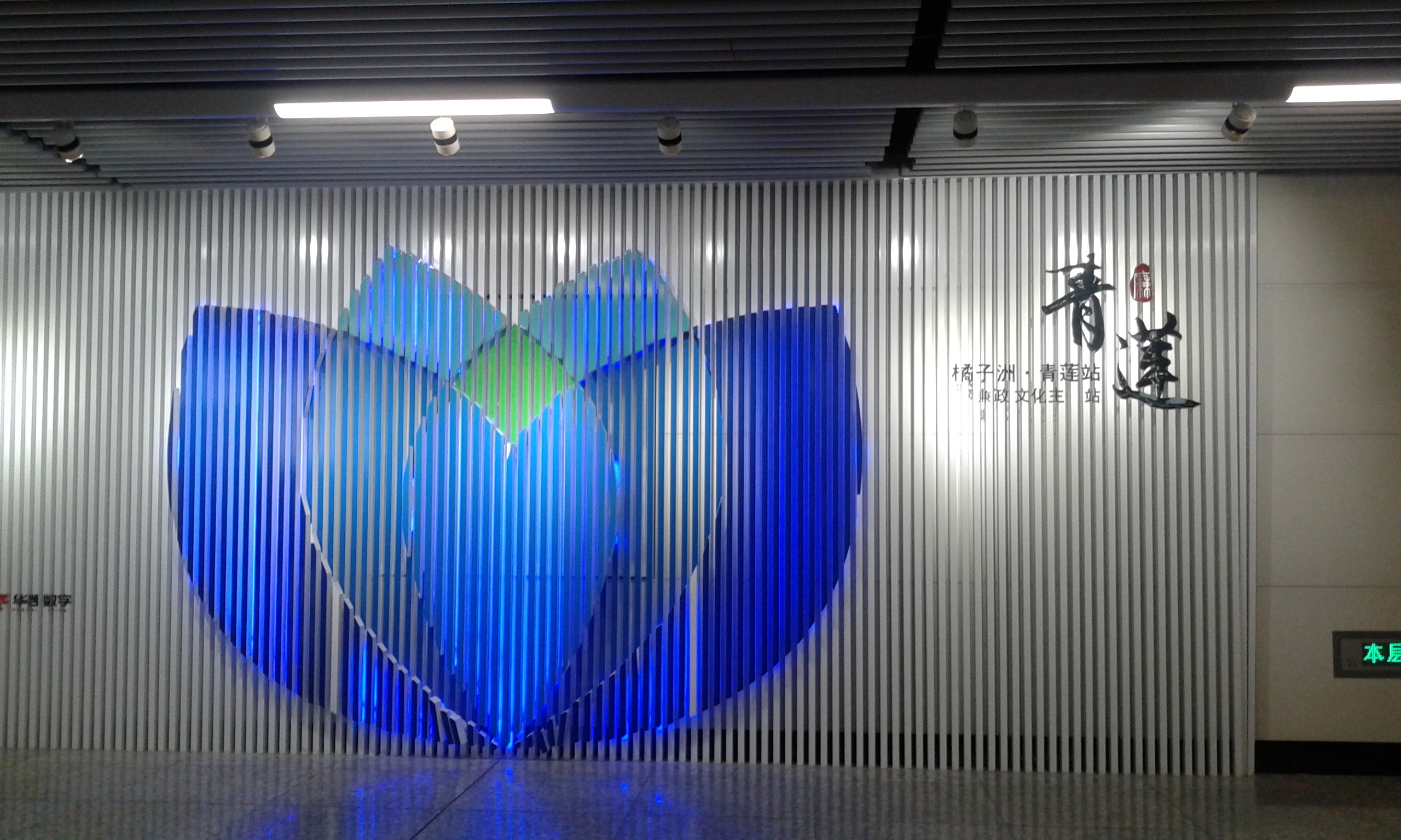 Art Wall in Juzizhou Station, Changsha Metro